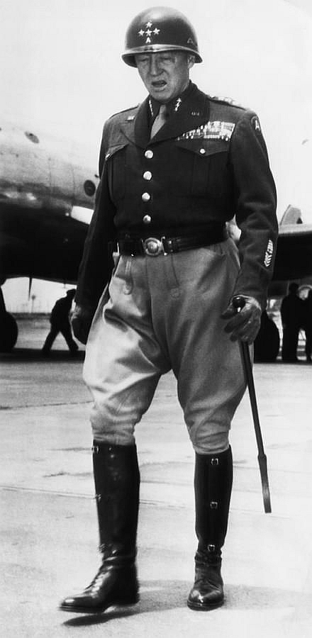 General George S. Patton Jr. (1885—1945), U.S. Army General, Los Angeles, California, June, 1945